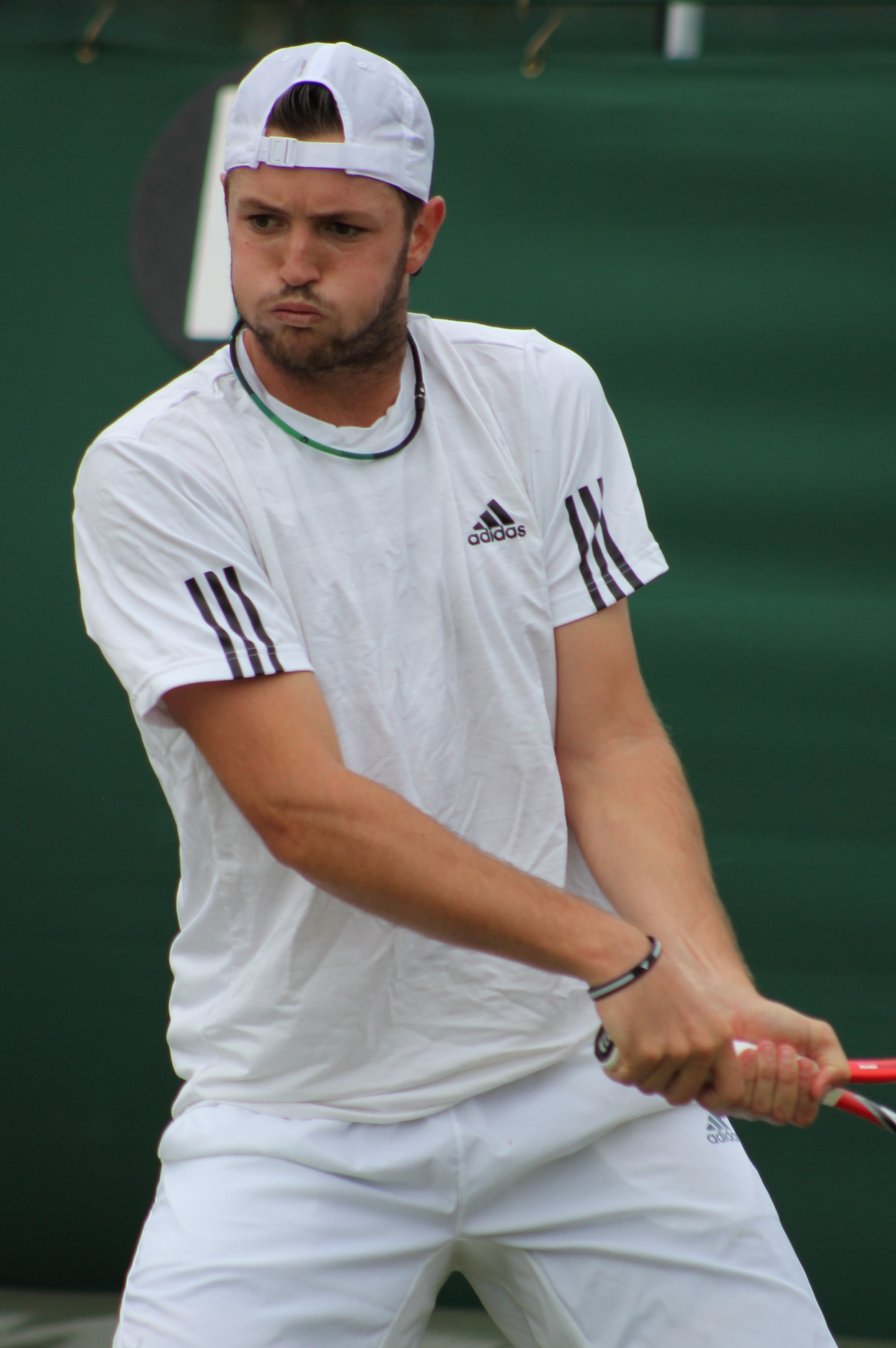 Williams R. WMQ14 (2)